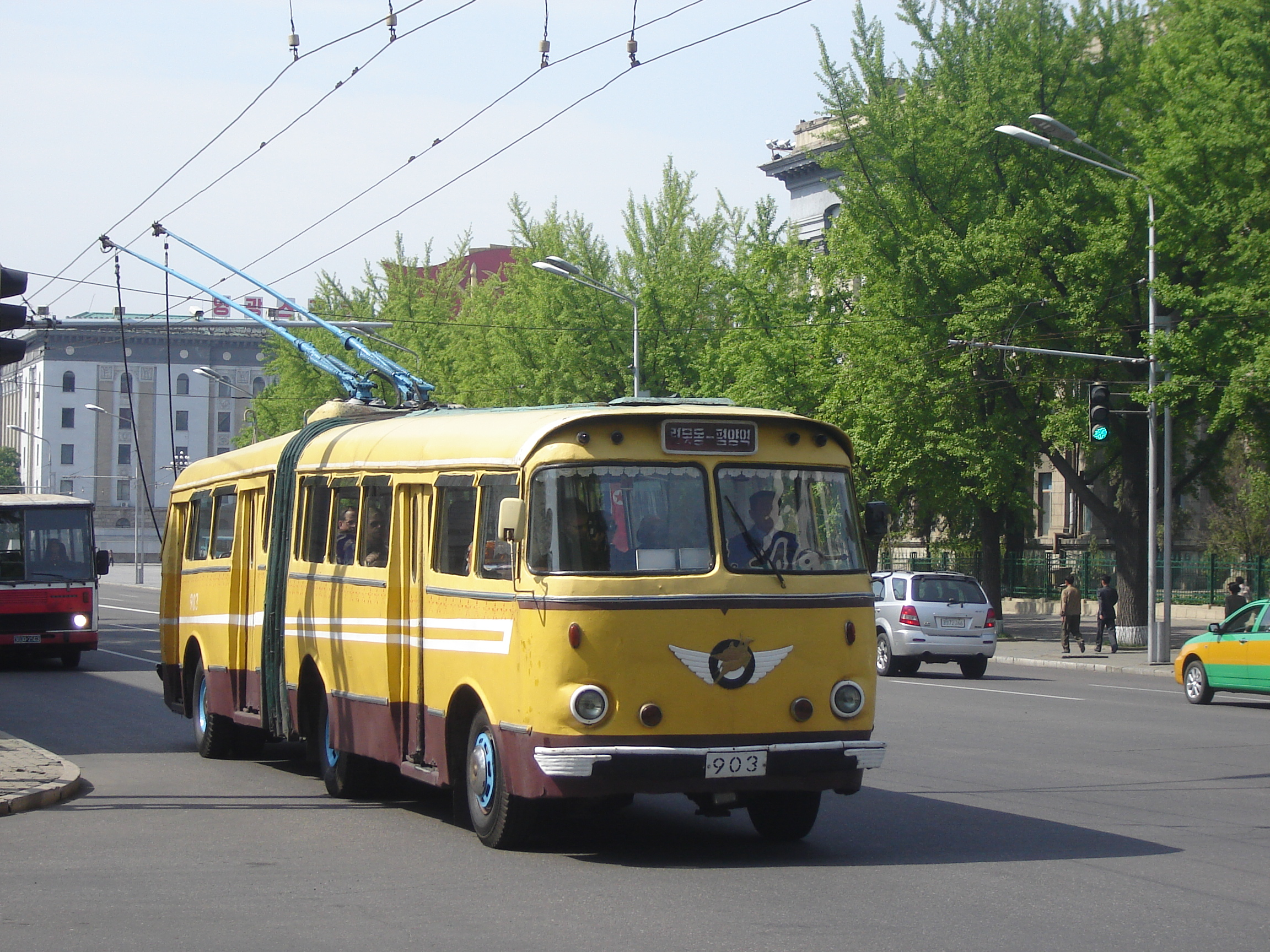 Pyongyang trolleybus 903 is a 1964 Chollima trolleybus (type "Chollima 9.25", and in 2014 it was the oldest articulated trolleybus in North Korea still in regular service.